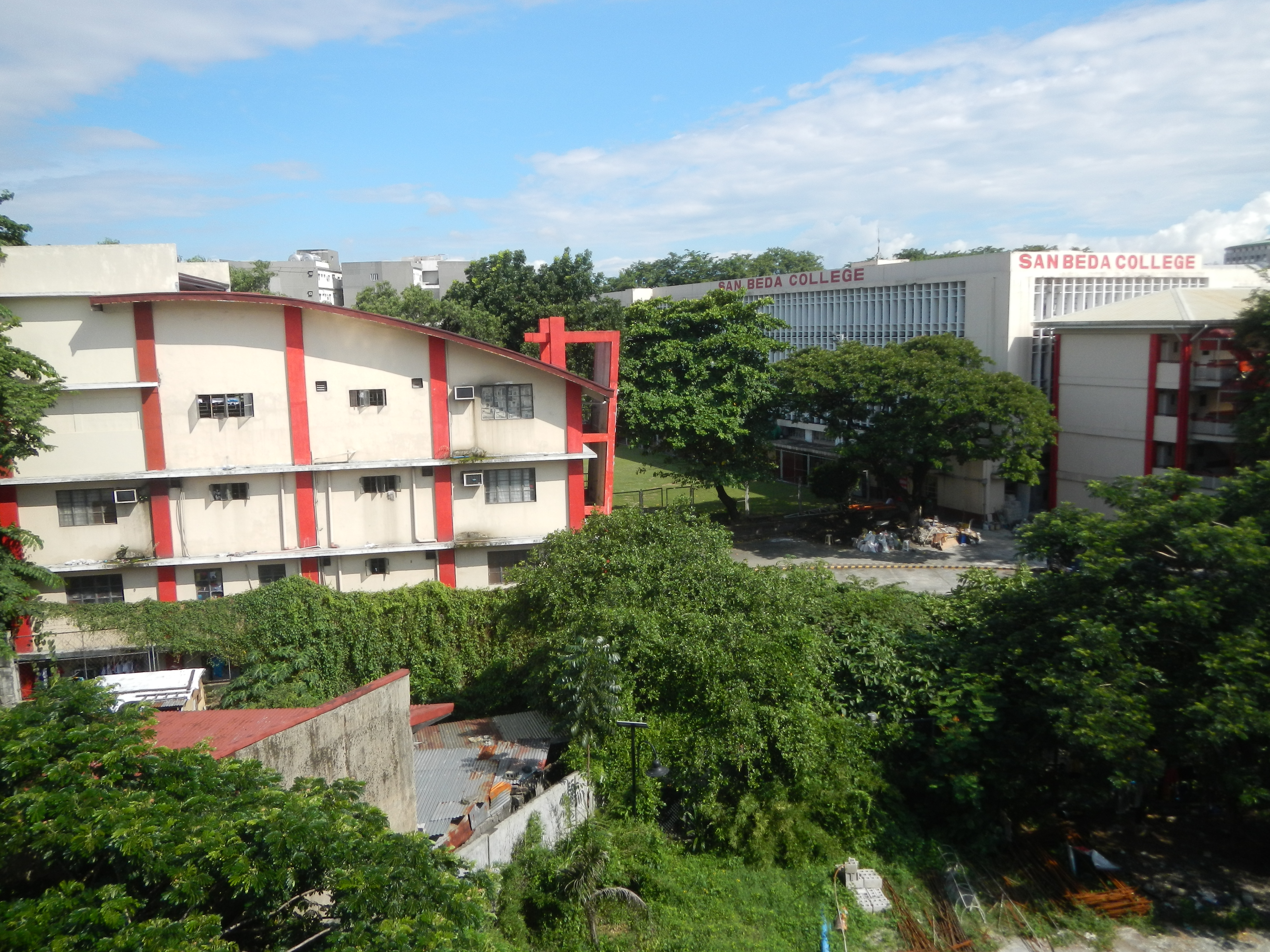 San Beda College from Landscape of Manila MRT Line 2-LRT 1 connecting Pedestrian footbridge, Doroteo Jose LRT Station-Recto LRT Station, Recto Avenue, Santa Cruz-Quiapo, Manila Manila Light Rail Transit System Line 1 and Manila Light Rail Transit System Line 2 Strong Republic Transit System SRTS City of Manila, Santa Cruz, Manila in Rizal Avenue corner Recto Avenue, Santa Cruz, Manila to Doroteo Jose LRT Station along List of roads in Metro Manila Doroteo Jose Street corner Oroquieta Street along Pedestrian overpass bridge (Doroteo Jose LRT Station-Recto LRT Station) to Recto LRT Station Isetann Cinerama Recto, along Evangelista Street to egarda LRT Station Coordinates 14°36′03.06″N 120°59′33.69″E Manila Light Rail Transit System Line 2 Strong Republic Transit System SRTS located in San Miguel, Manila and Sampaloc, Manila, City of Manila along Legarda Street).